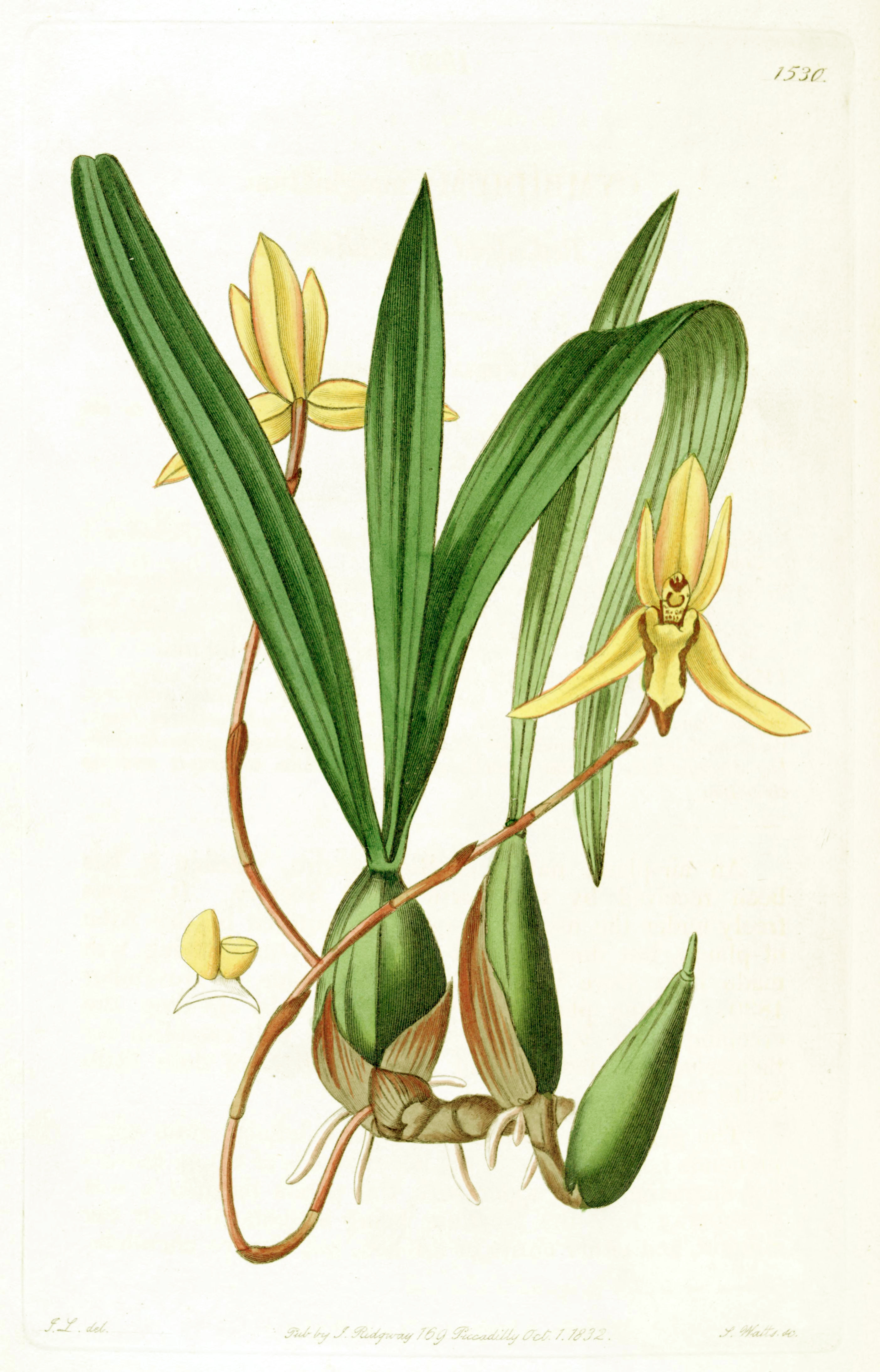 Brasiliorchis marginata (as syn. Cymbidium marginatum)